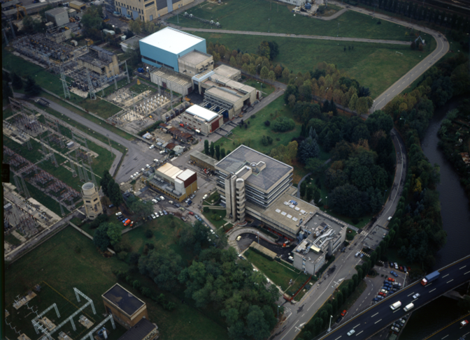 CESI Sede Milano